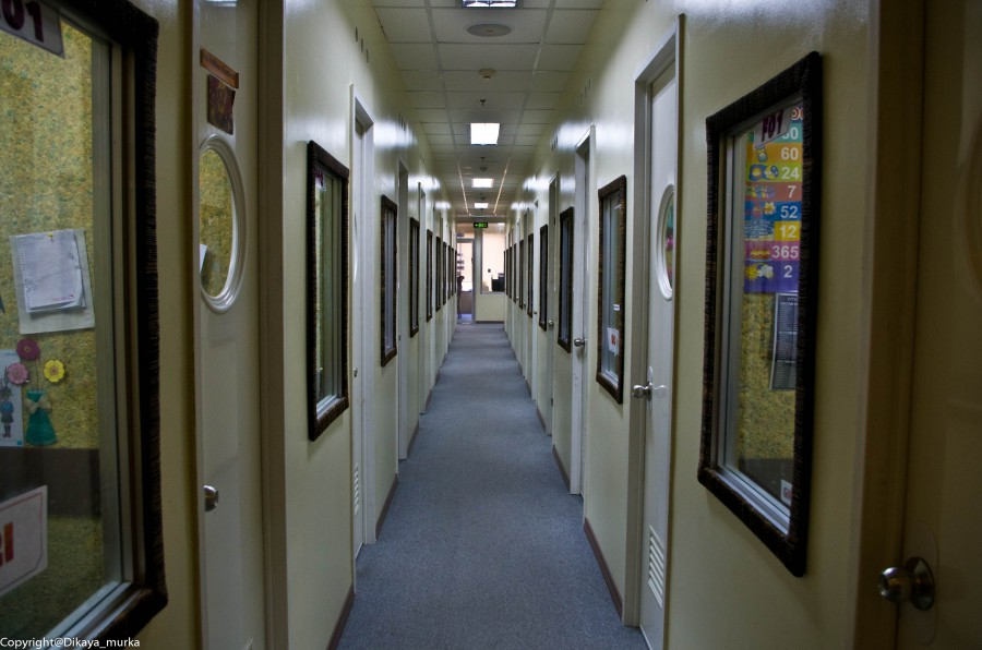 Philippines， language school